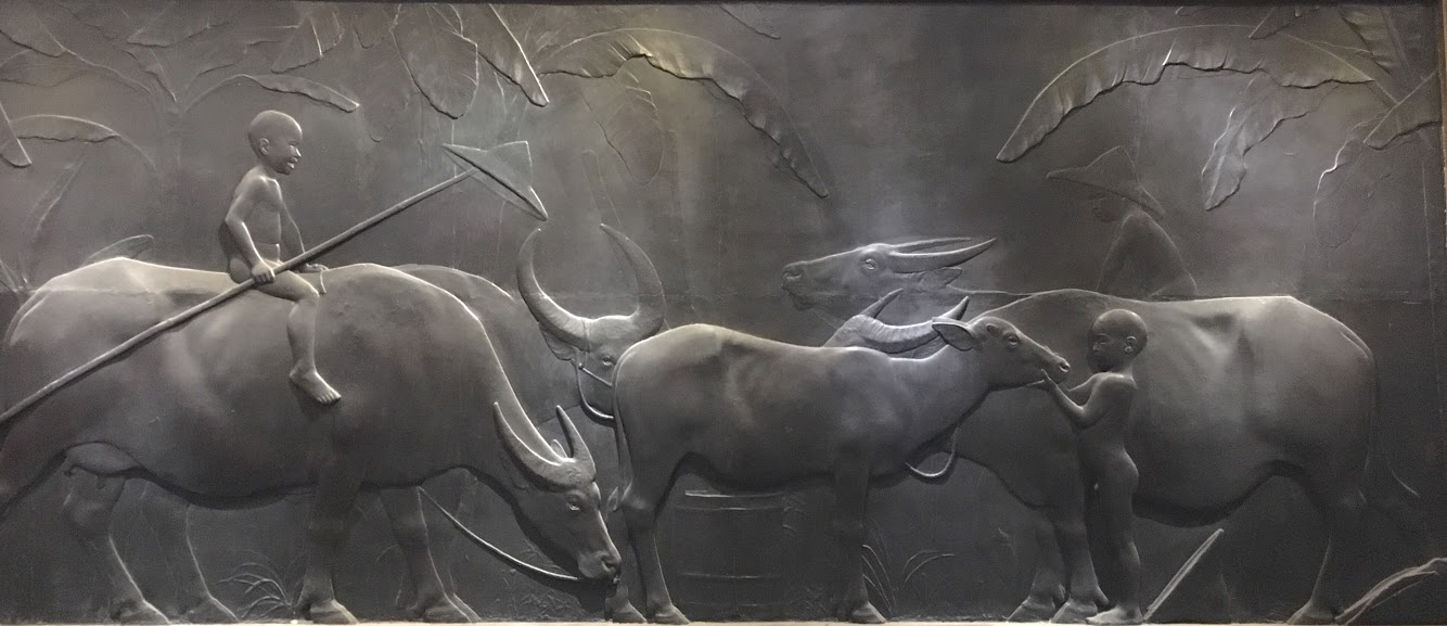 The Water Buffalo (水牛群像), completed in 1930 by Huang Tu-shui (1895–1930). Plaster cast.